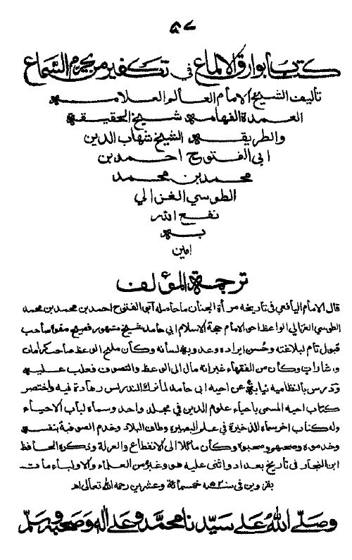 Page of book on permissibility of music in Islam. Printed in Lucknow 1900